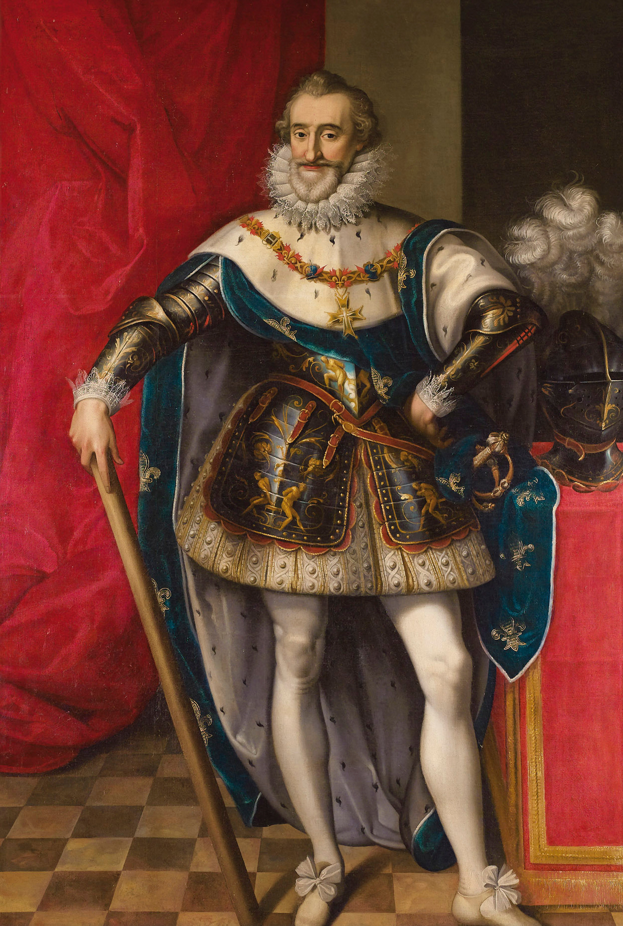 Portrait of Henry IV of France (1553-1610)